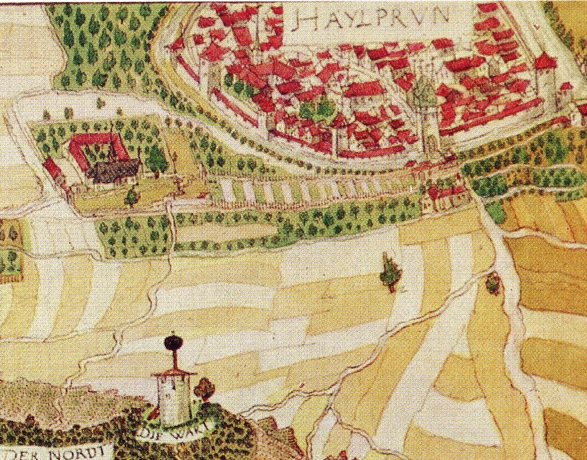 The Heilbronn Carmelite monastery on a part of a map of the sourroundings of Heilbronn from 1578